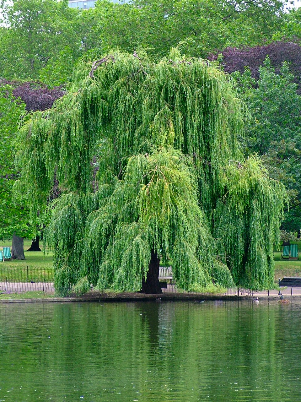 Willow